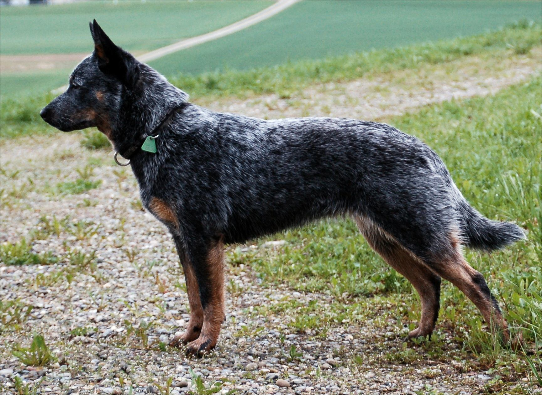 Australian Cattle Dog "Silverbarn's Naava".